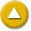 StopBadware's "Yellow Alert" logo. "Applications that have behaviors that users may find objectionable, but that clearly inform users of those behaviors during installation, are marked by Yellow_smaller indicating caution."